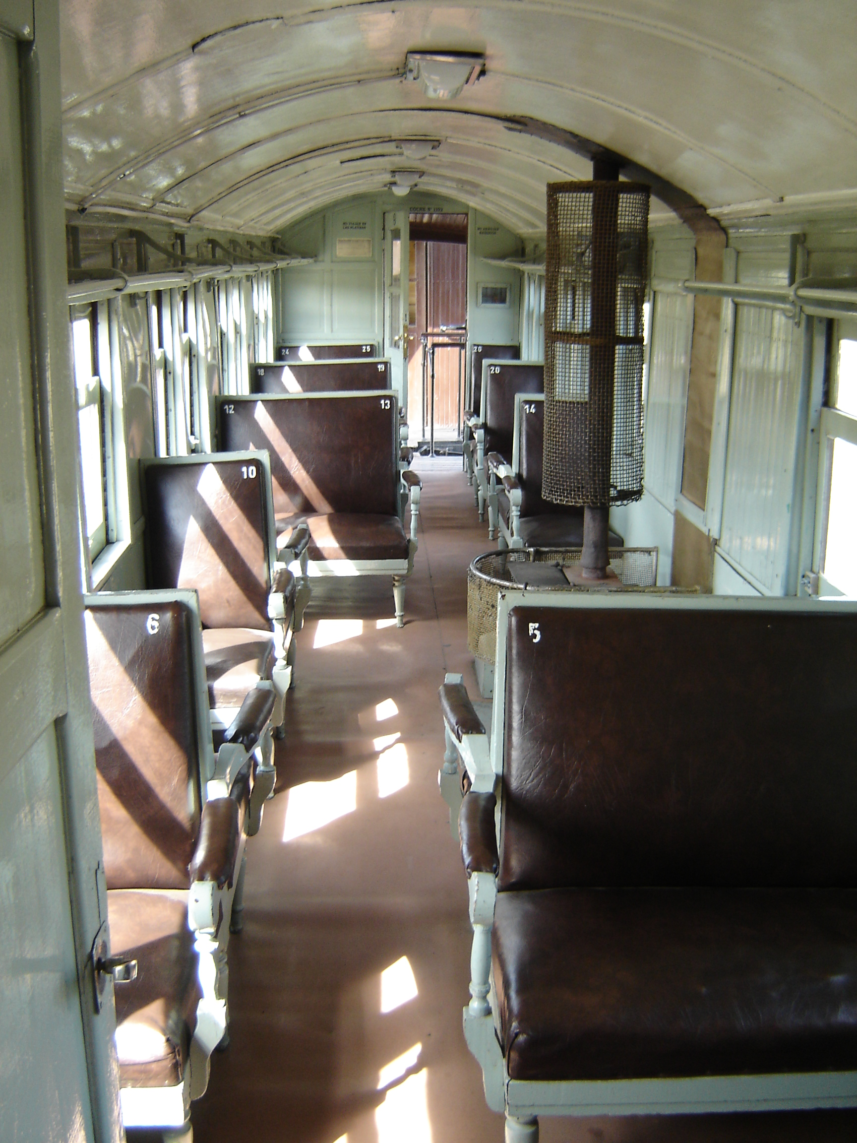 Old Patagonian Express "La Trochita", taken in NAHUEL PAN ESTACION FCGR, U9200XAH, Chubut, Argentina. Province: ISO 3166-2: AR-U. FIPS 10-4: AR04. INDEC: 26. Department: Futaleufú Department. DD: 42°57′00″S 71°11′00″W / 42.95°S 71.1833333°W DMS: 42°57′00″S 71°11′00″W / 42.95°S 71.1833333°W